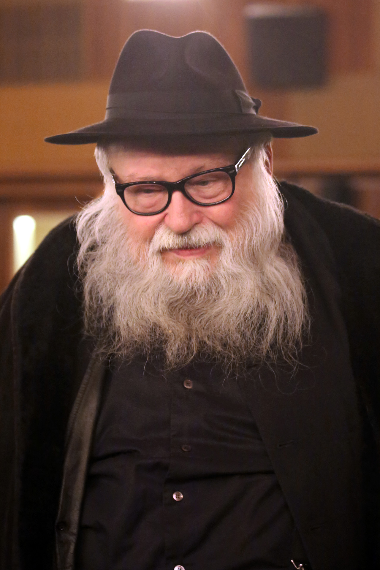 Hermann Nitsch at the screening of Peter Kubelkas Monument Film at Vienna International Film Festival 2012 (Gartenbaukino).